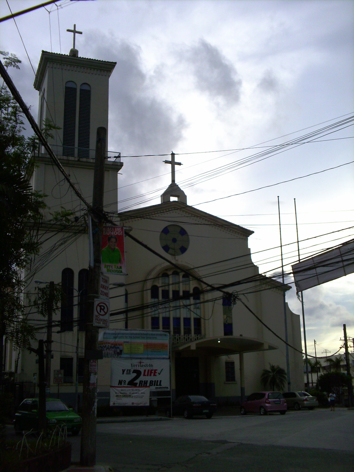 The Immaculate Conception Cathedral and Parish, a.k.a. Cubao Cathedral.